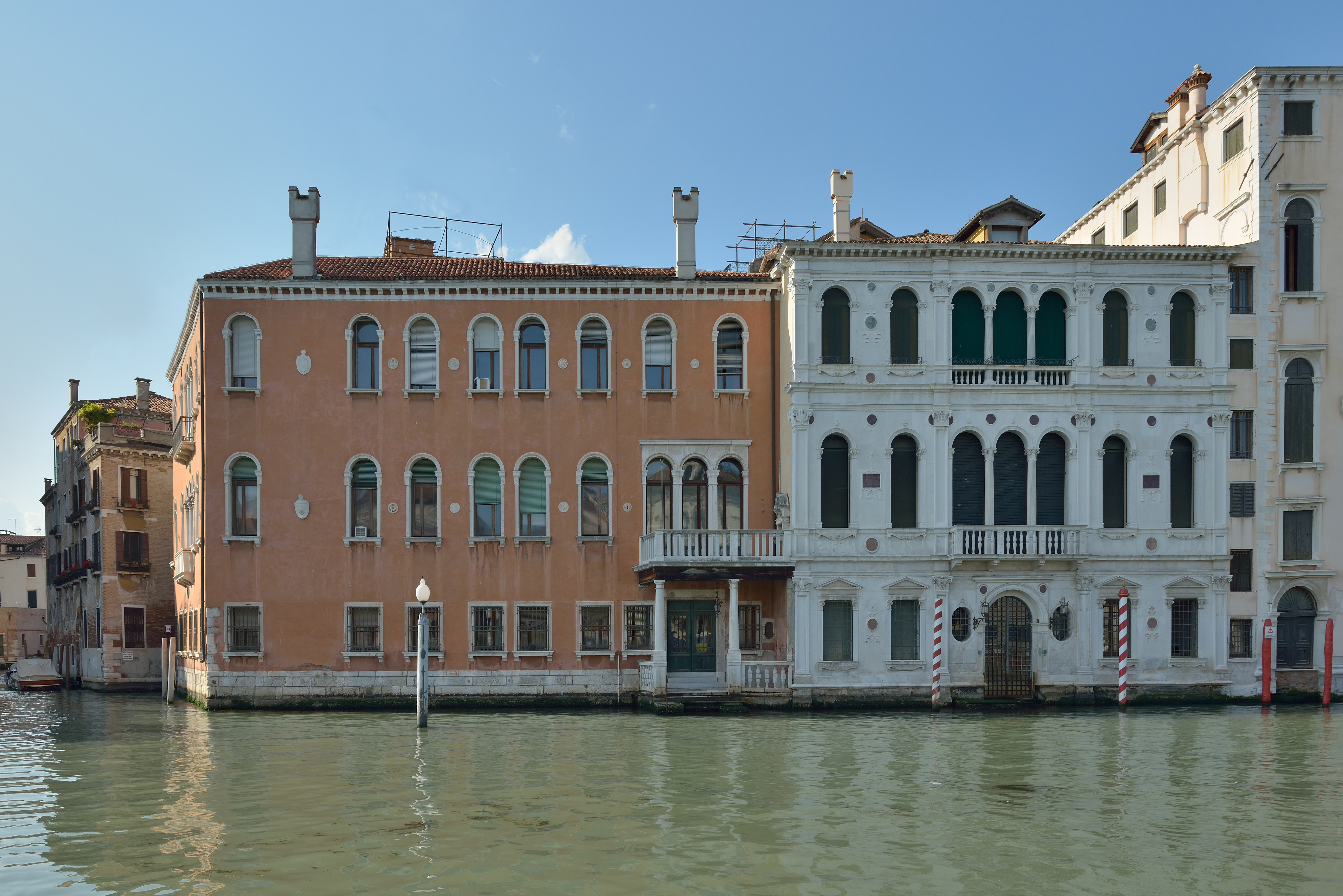 The Ca' Cappello Layard Carnelutti and Palazzo Grimani Marcello. A view from the Canal Grande in Venice